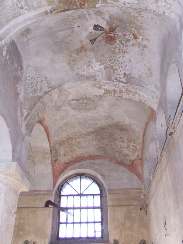 Synagogue in Bychawa